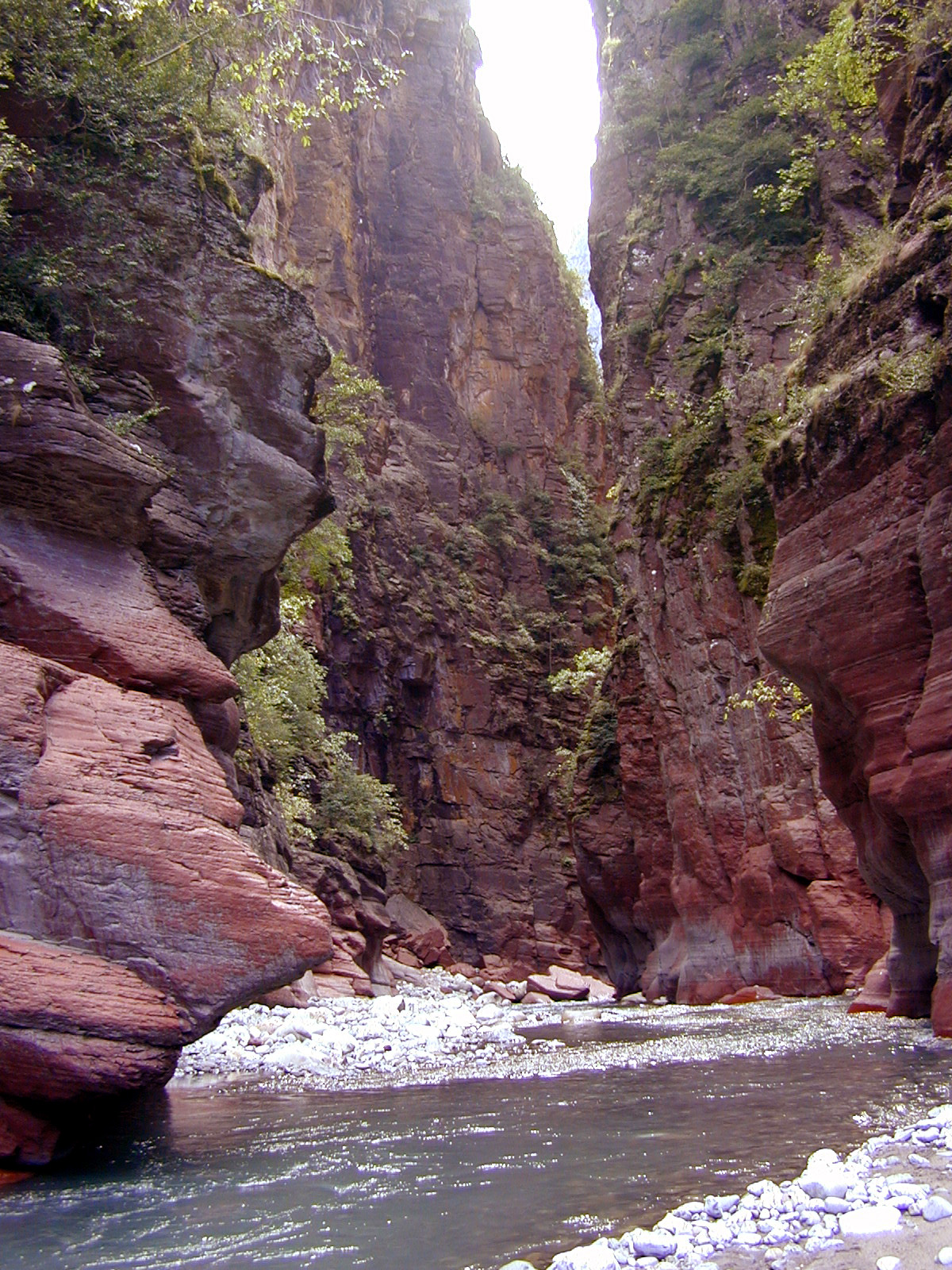 Daluis (06), Daluis canyon, Var river